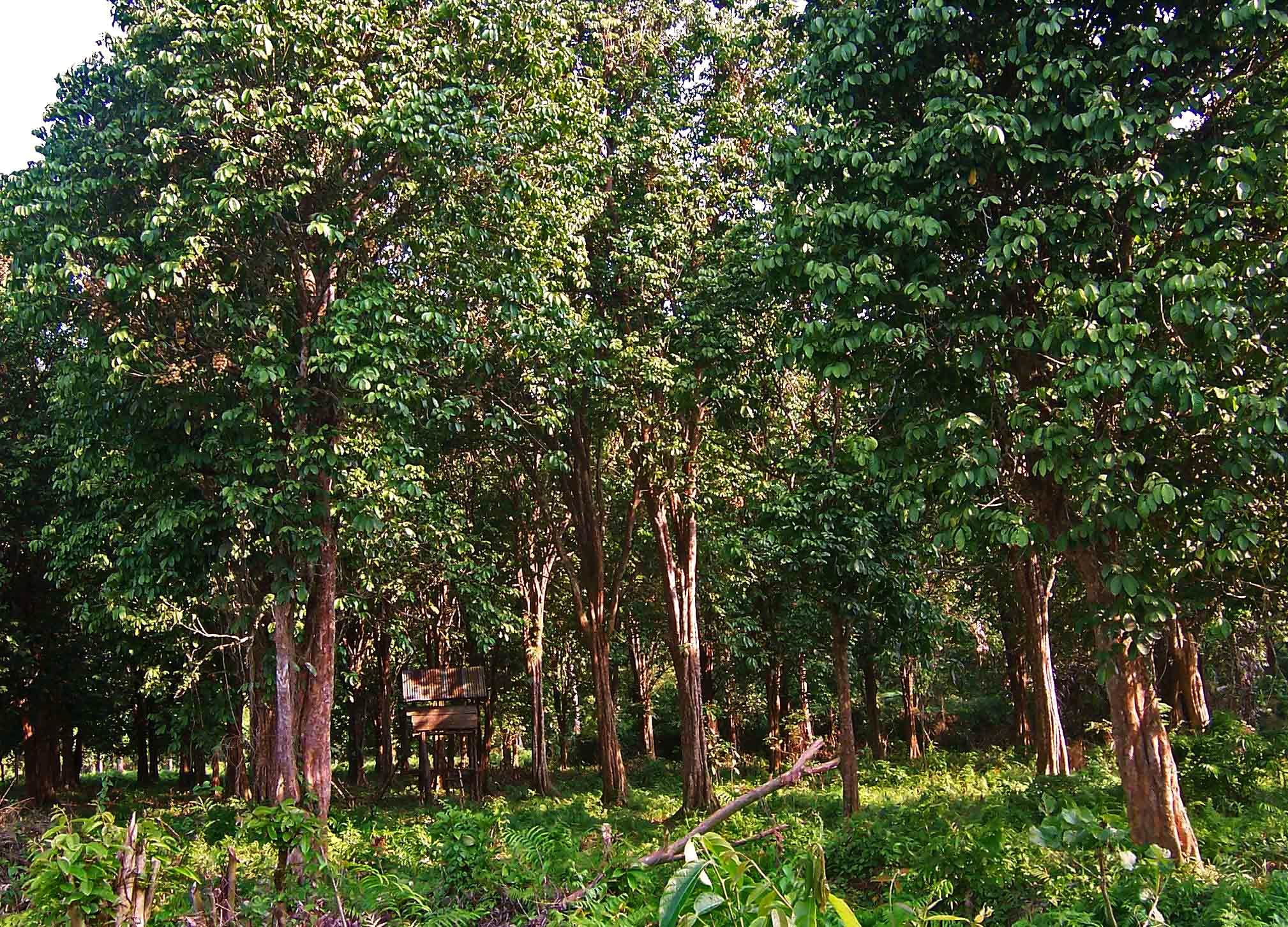 Duku (Lansium domesticum) agroforest. Mandi Angin, Rawas Ilir, Kabupaten Musi Rawas, South Sumatra, Indonesia.